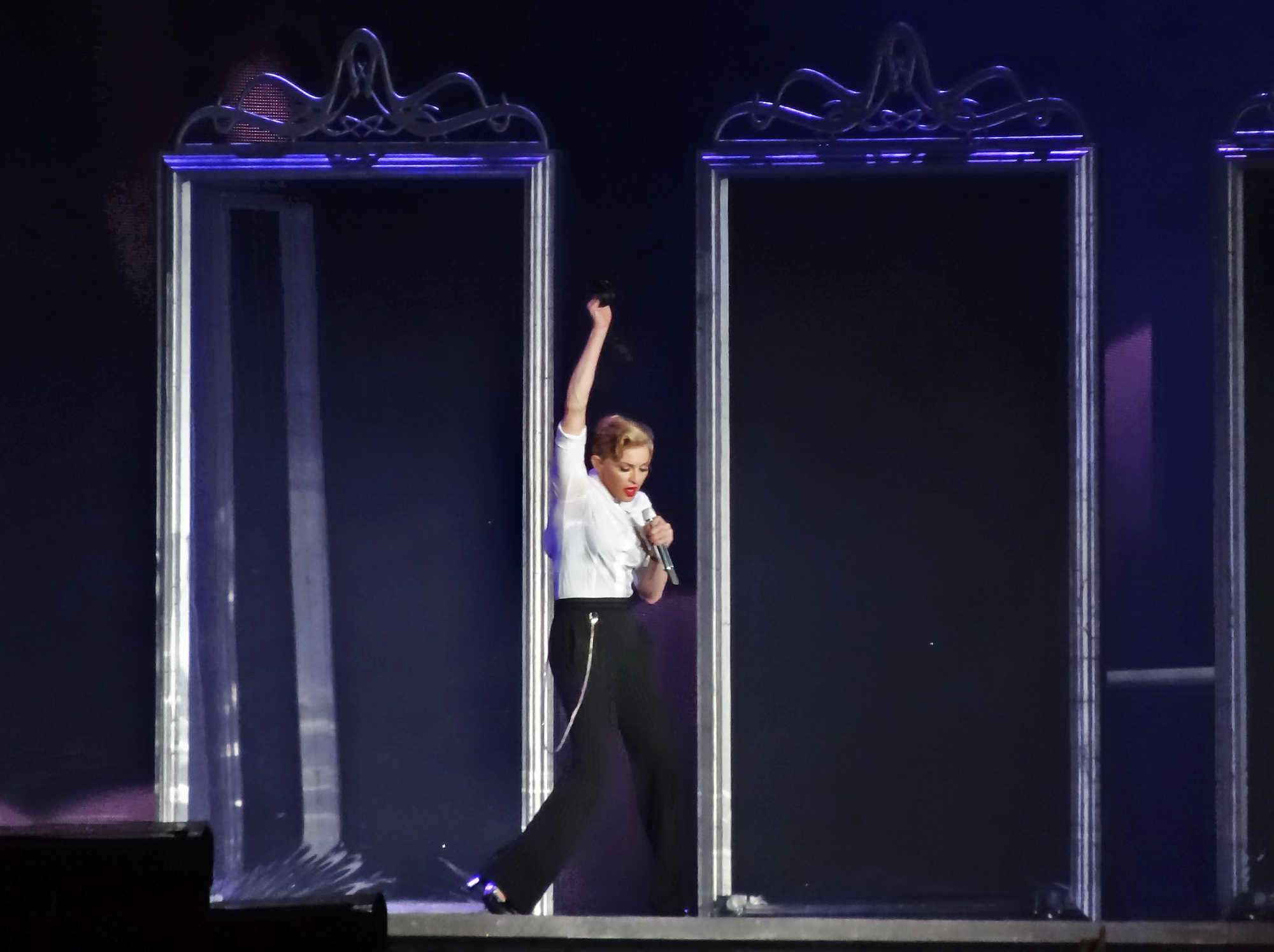 Madonna plays Yankee Stadium on 8 September 2012